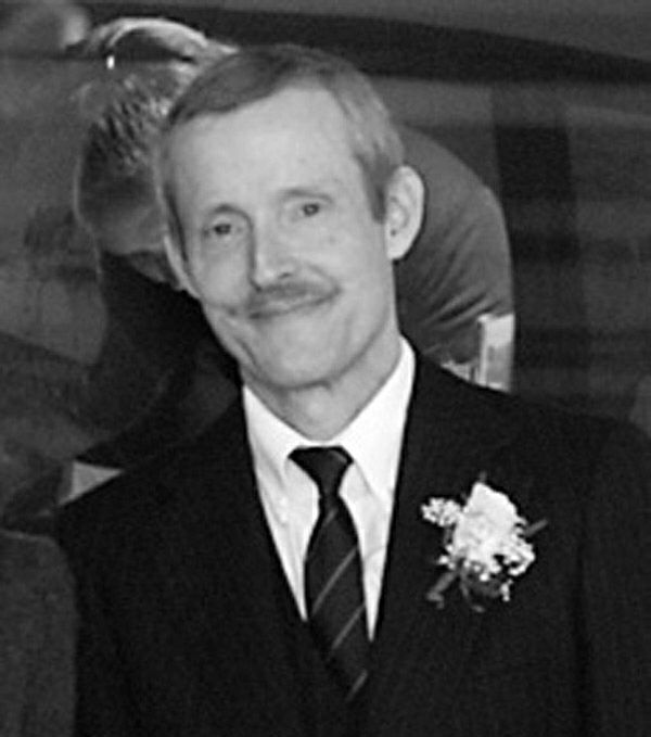 "This 2003 photo provided by the U.S. Army Medical Research Institute of Infectious Diseases shows Dr. Bruce E. Ivins, a bio-defense researcher at Fort Detrick, Md., participating in an awards ceremony." (Picture caption from Yahoo)